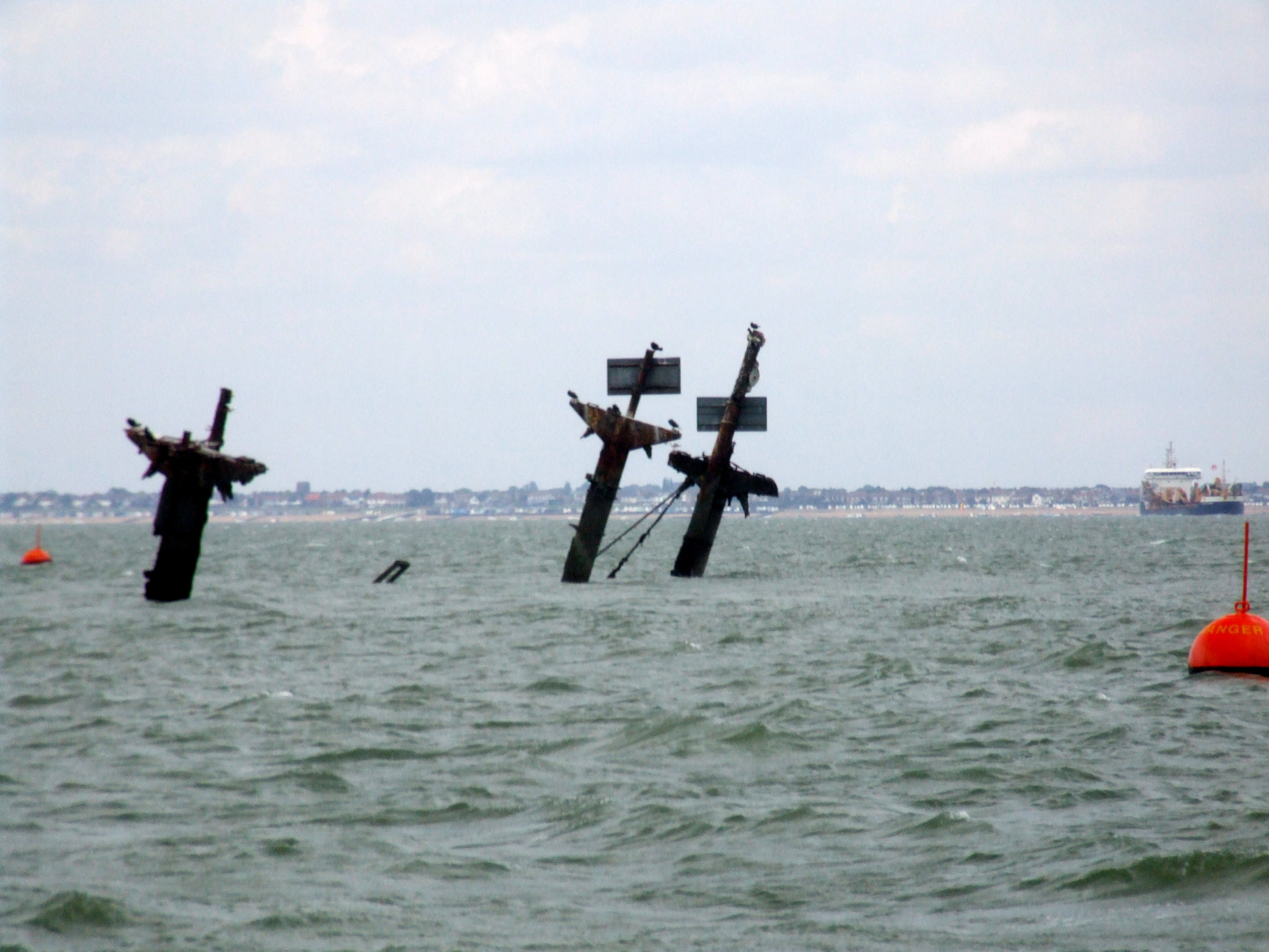 SS Richard Montgomery taken from aboard the PS Kingswear Castle.